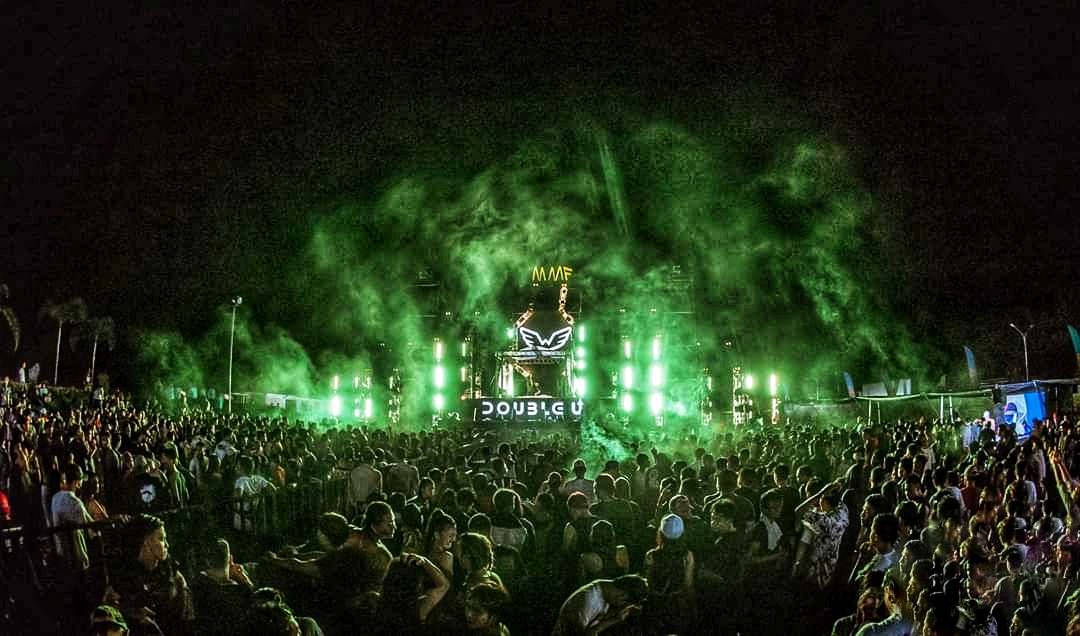 Double U is Burmese DJ & music producer.